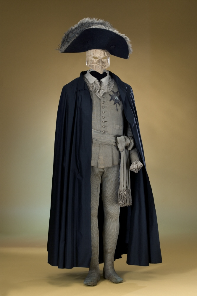 The costume king Gustavus III wore at the masked ball, in which he was shot on the 16th of marsch 1792.